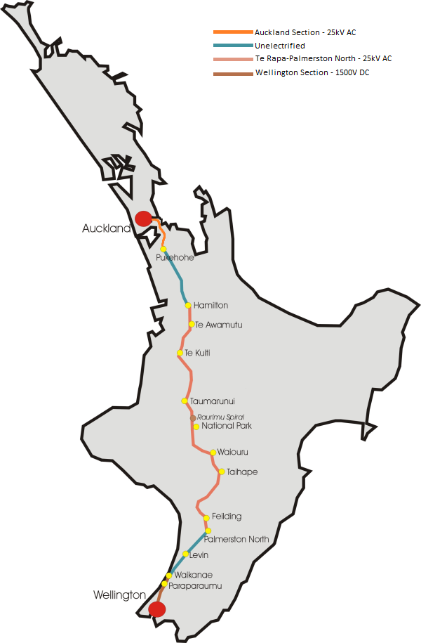 A map of the North Island Main Trunk Line, showing electrification information, as of March 2016.